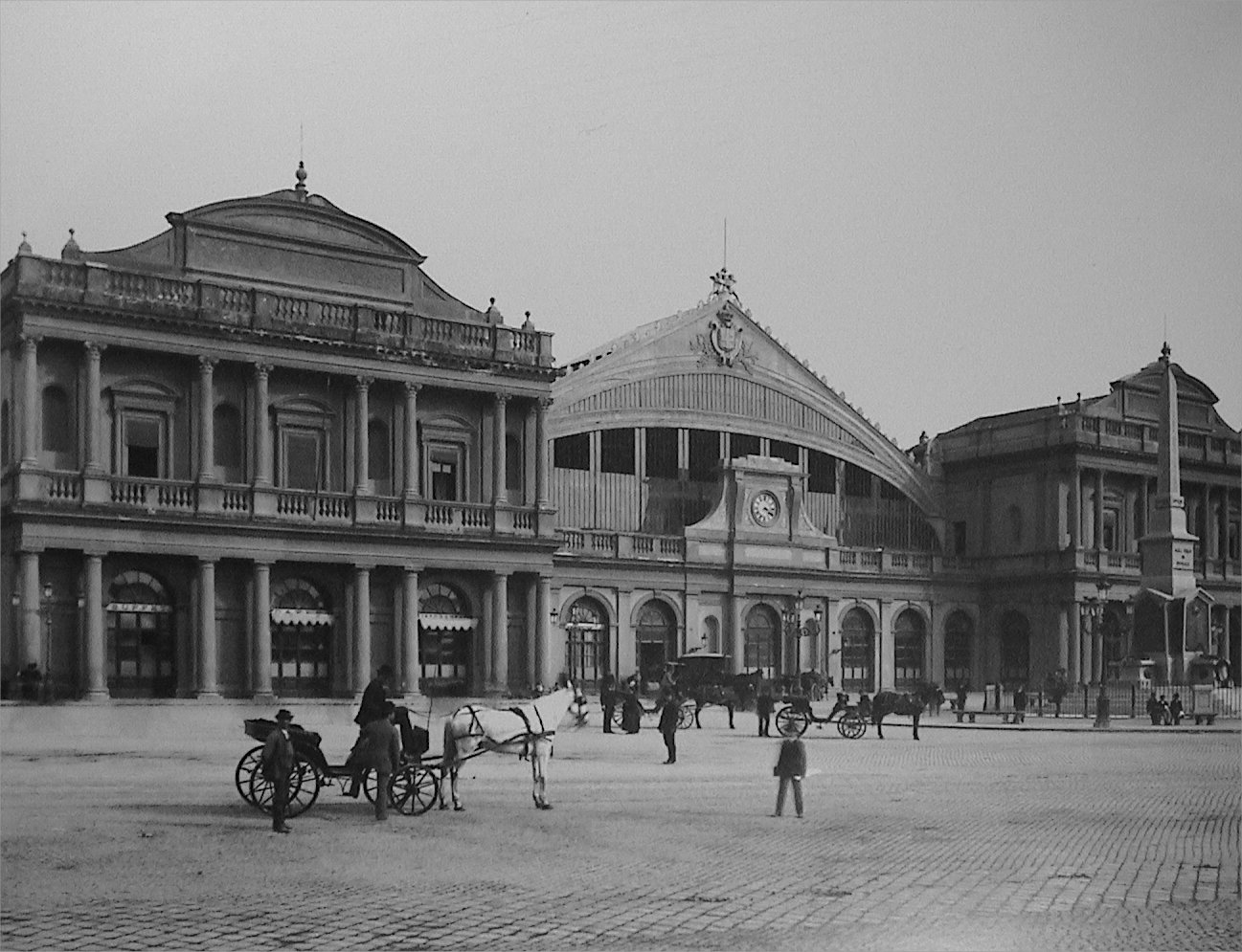 The façade of Termini Station